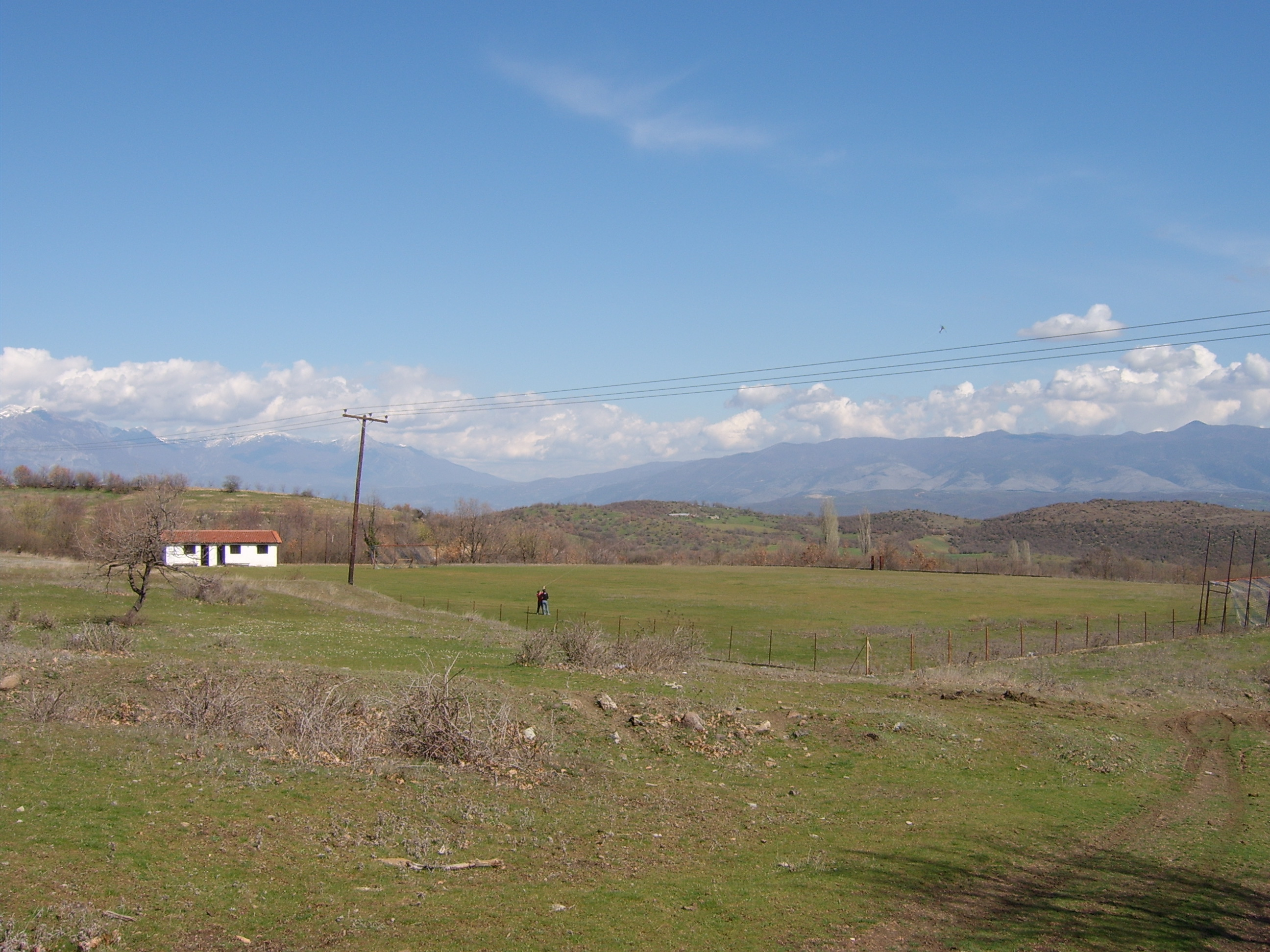 Football field in Sotira, Pella, Greece